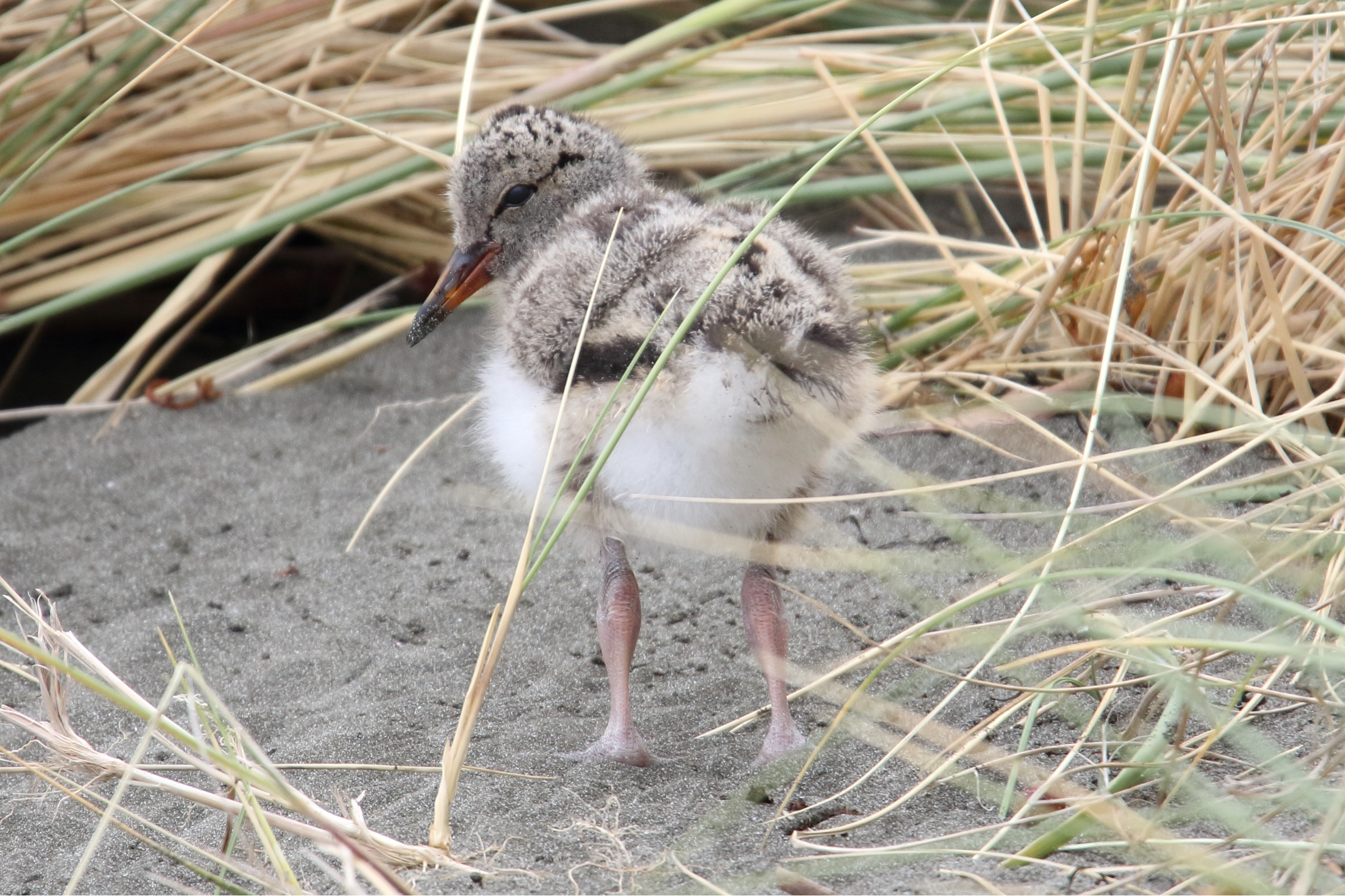 Pied Oystercatcher (Haematopus longirostris)_3